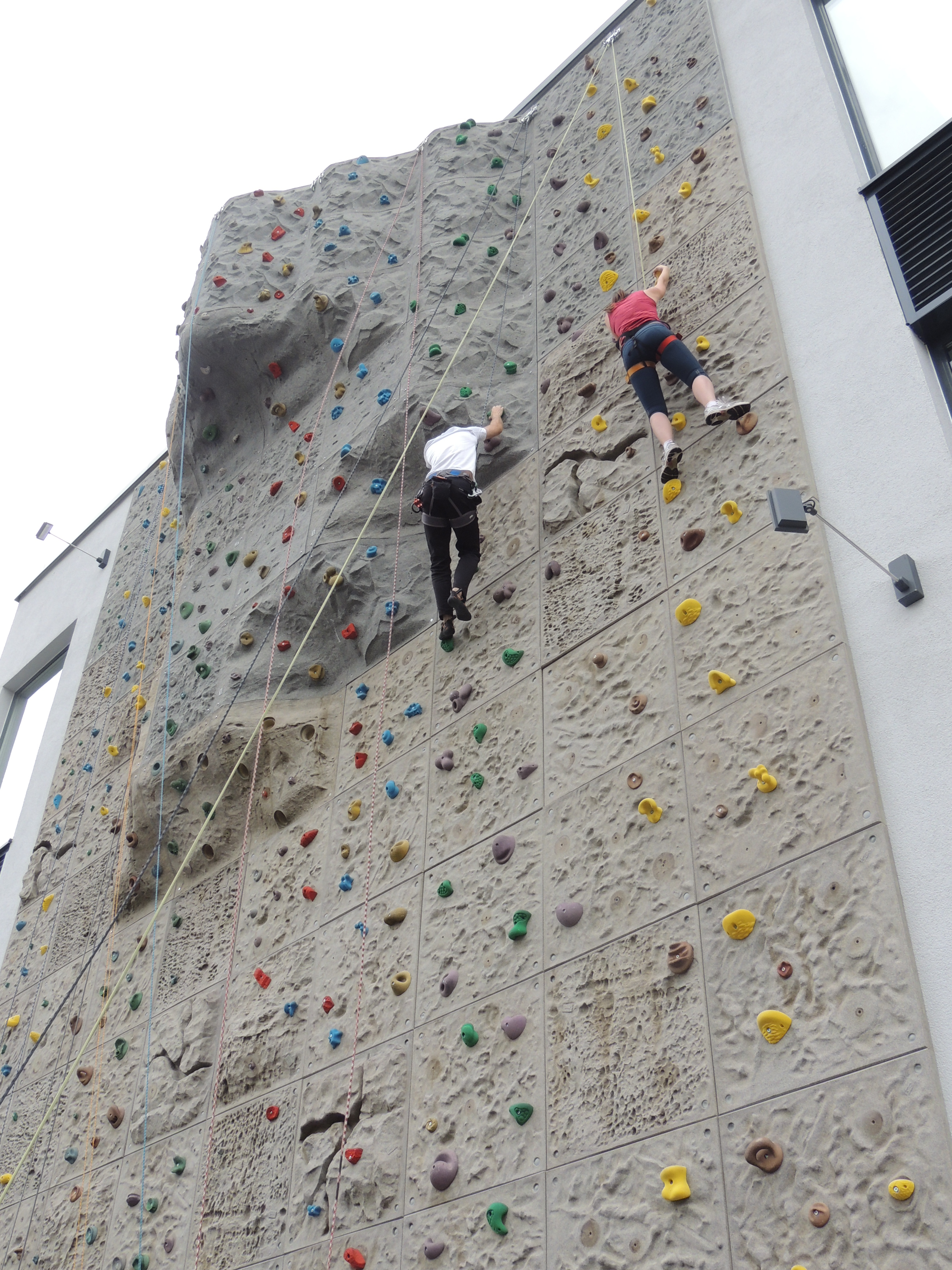 Climbing wall at the new gymnasium of the Turngemeinde Bornheim in the Inheidener Street in Frankfurt am Main-Bornheim